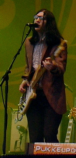 "Little" Jack Lawrence op Pukkelpop